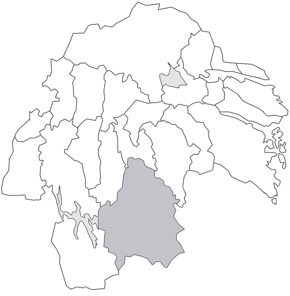 Map describing the location of Kinda Hundred in Östergötland County, Sweden.